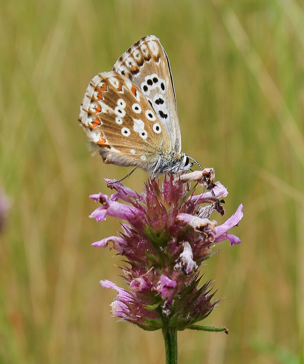 Polyommatus coridon on Betonica serotina Bijela gora (Montenegro) at 1350 m asl.